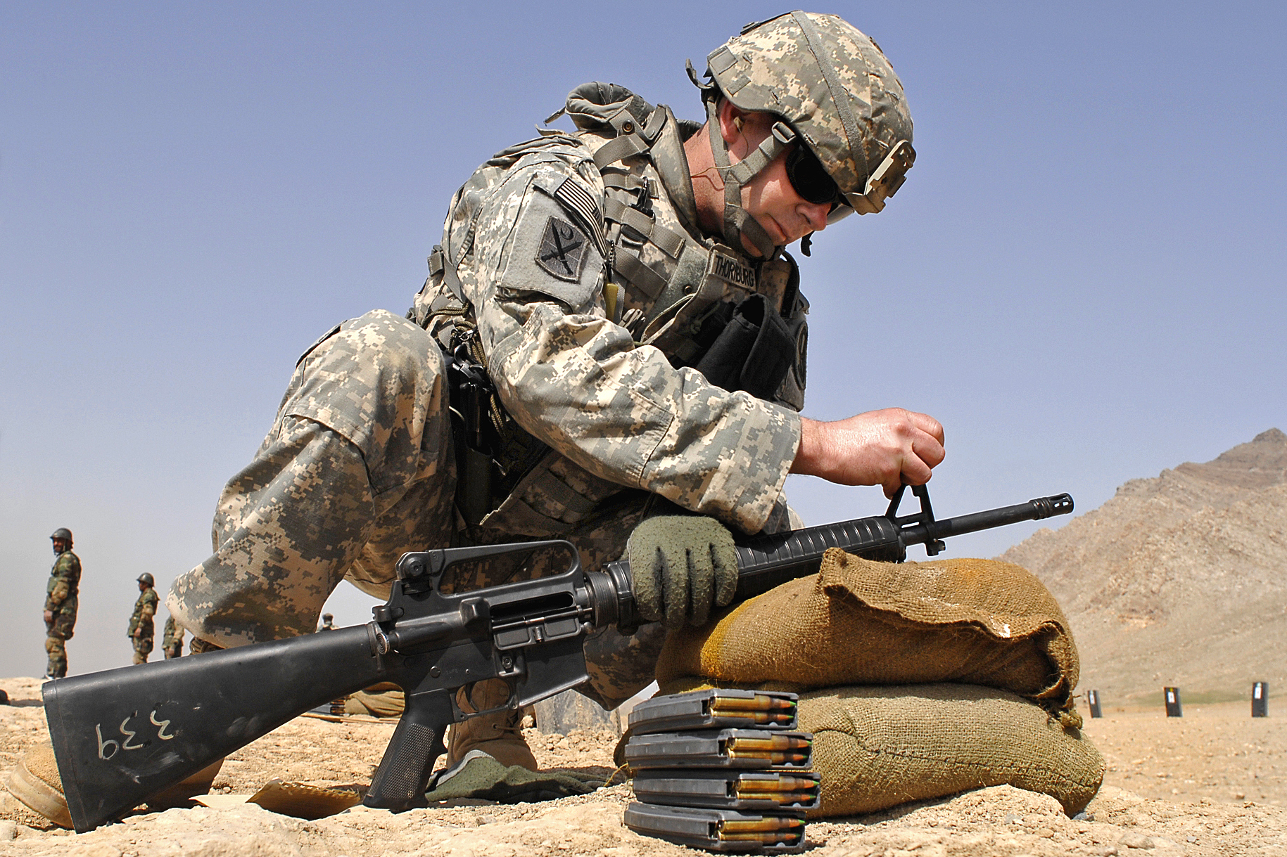 U.S. Army Staff Sgt. Chris Thornburg adjusts the sights on an Afghan soldier's M16 during zeroing on the Kabul Military Training Center, Afghanistan, March 17, 2009. Thornburg is assigned to Camp Alamo Mentor Group's Basic Warrior Training Branch and mentors Afghan recruits as they learn to use their new M16s.